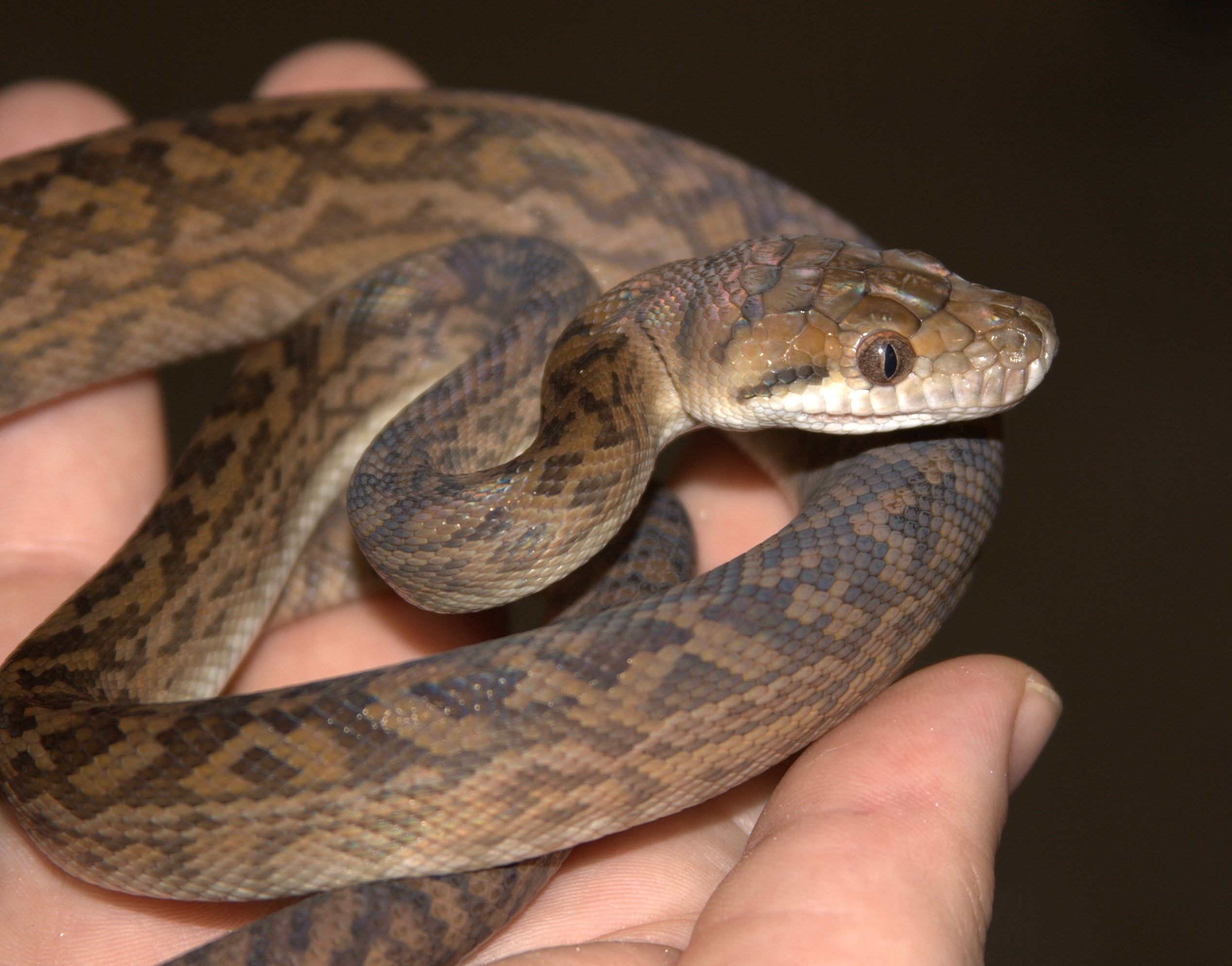 Hatchling of an Australian scrub python (Morelia kinghorni) at Black Hills Reptile Gardens, South Dakota